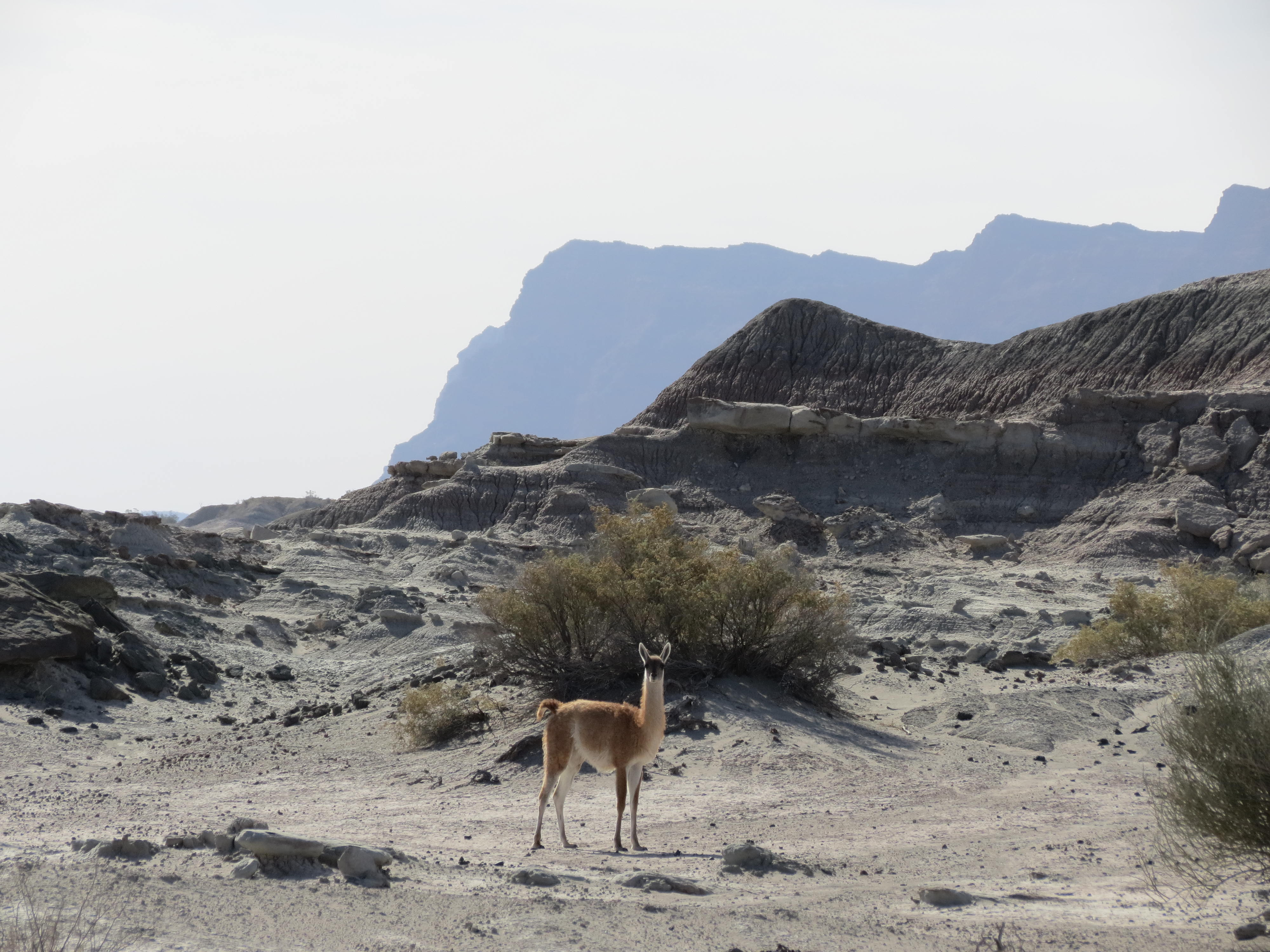 El Parque Provincial Ischigualasto alberga una importante población de guanacos (Lama guanicoe), una de las más centrales en Argentina, ya que el resto de las poblaciones se encuentran asociadas a sitios de montaña. Si bien su categoría de conservación no es de gran preocupación, el parque representa una gran oportunidad para esta población dado que fuera del área protegida es muy perseguida por el hombre. Los guanacos están totalmente adaptados para vivir en estos ambientes inospitos e incluso puede alimentarse de especies vegetales como el cardón del valle (Trychocereus terchesckii). La presencia de guanacos en el sitio es conocida desde tiempos pre hispánicos debido a las marcas que han dejado en las pinturas rupestres los antiguos pobladores.